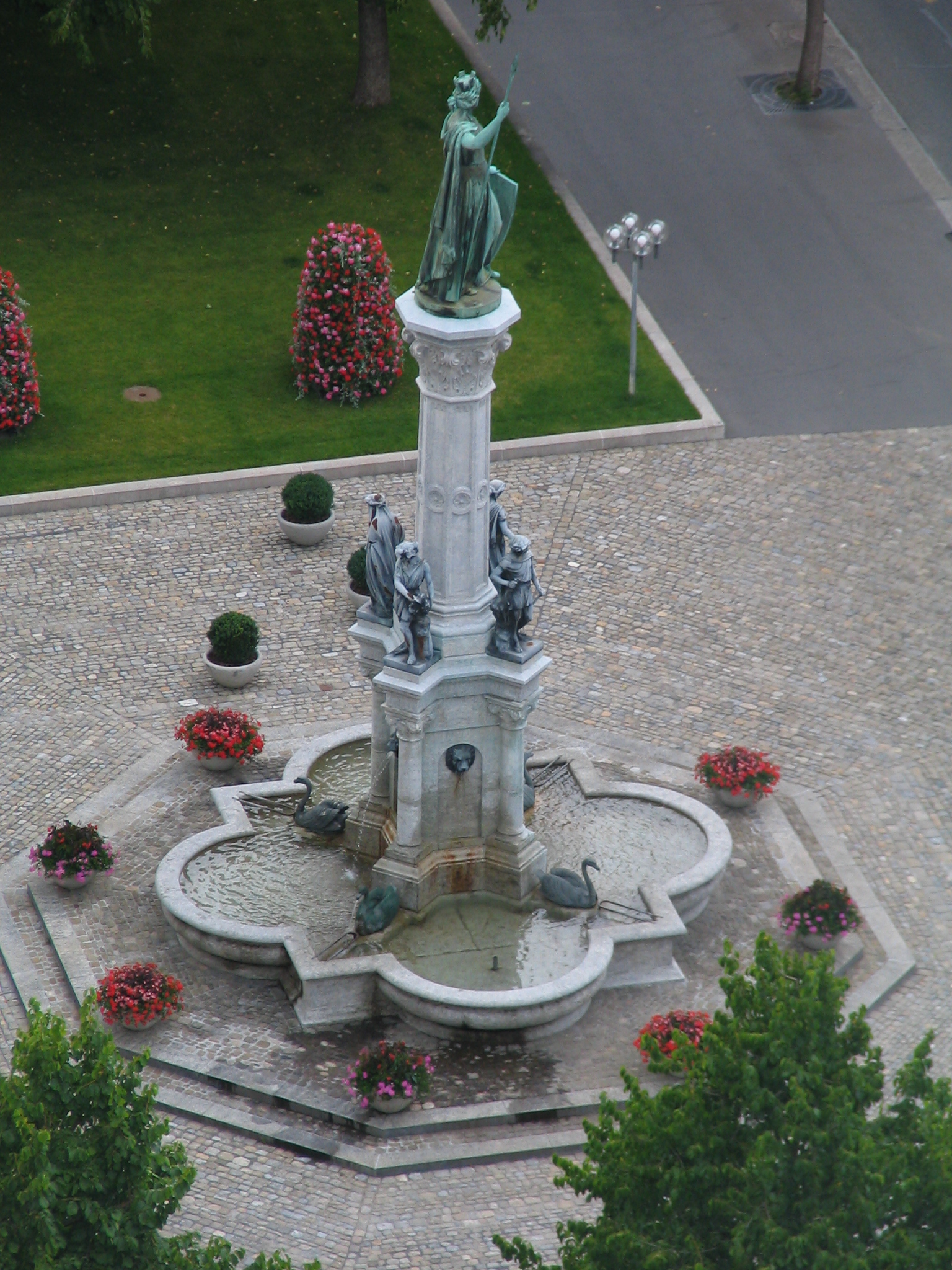 Bernabrunnen (fountain of Berna) in Bern (Switzerland) seen from the top of the parliament building